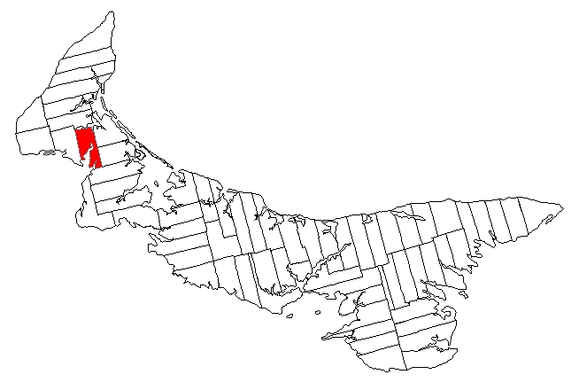 Public domain map of Prince Edward Island created by User:Plasma east with data courtesy of Geogratis, modified to show townships. Released under GFDL (self).